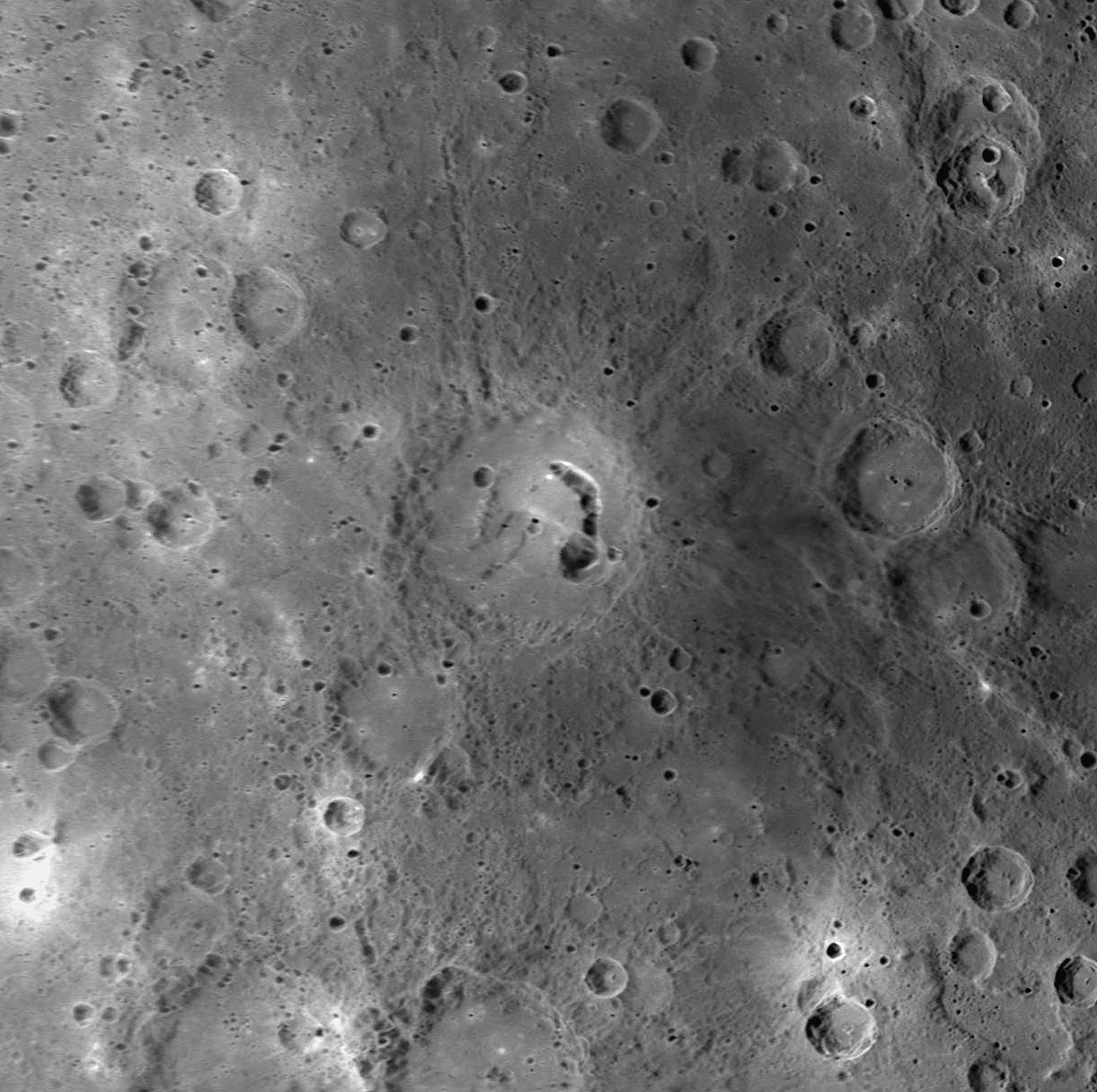 Instrument: Narrow Angle Camera (NAC) of the Mercury Dual Imaging System (MDIS) Resolution: 500 meters/pixel (0.31 miles/pixel) Scale: The diameter of Picasso is 133 kilometers (83 miles) Projection: This image is a portion of the NAC approach mosaic from Mercury flyby 3. It is shown in a simple cylindrical map projection. Of Interest: The crater pictured in the center of this image was recently named Picasso, in honor of the Spanish painter and sculptor Pablo Picasso (1881-1973). This crater, first imaged during MESSENGER's third Mercury flyby, has drawn scientific attention because of the large, arc-shaped pit located on the eastern side of its floor. Similar pits have been discovered on the floors of several other Mercury craters, such as Beckett and Gibran. These pits are postulated to have formed when subsurface magma subsided or drained, causing the surface to collapse into the resulting void. If this interpretation is correct, pit-floor craters such as Picasso provide evidence of shallow magmatic activity in Mercury's history.